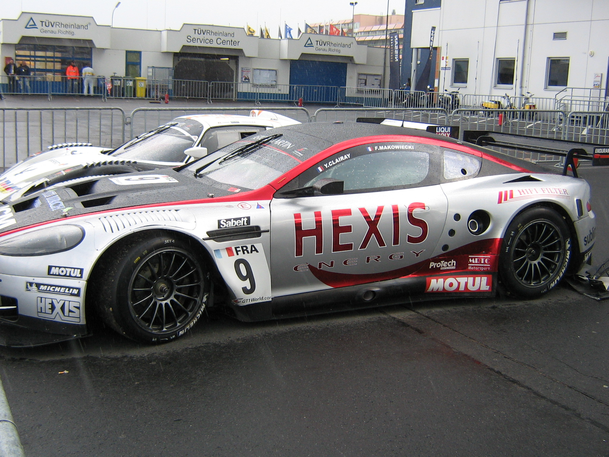 The Aston Martin Nr.9 from the FIA GT 1 World Championship